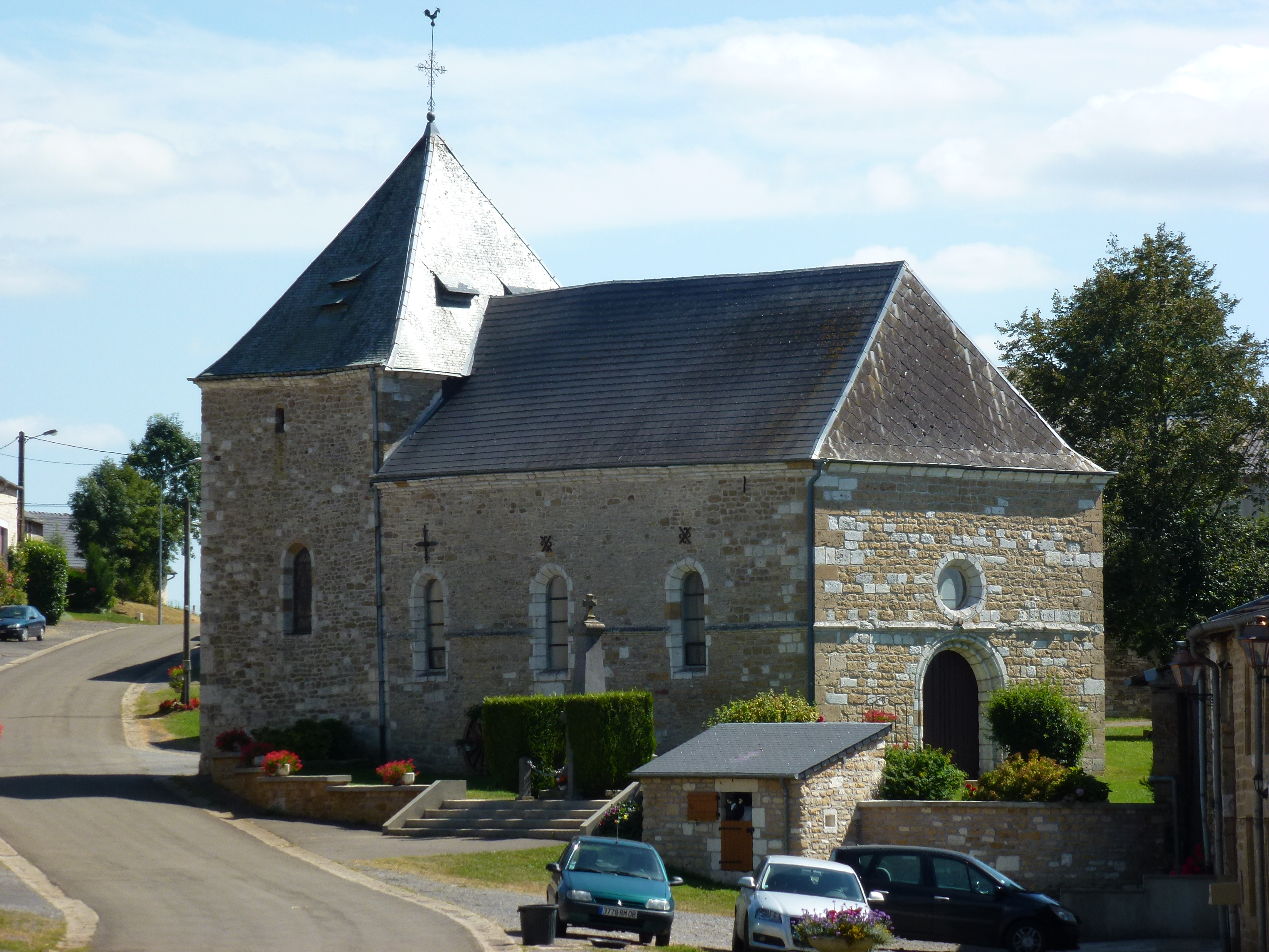 Cernion (Ardennes) église 01